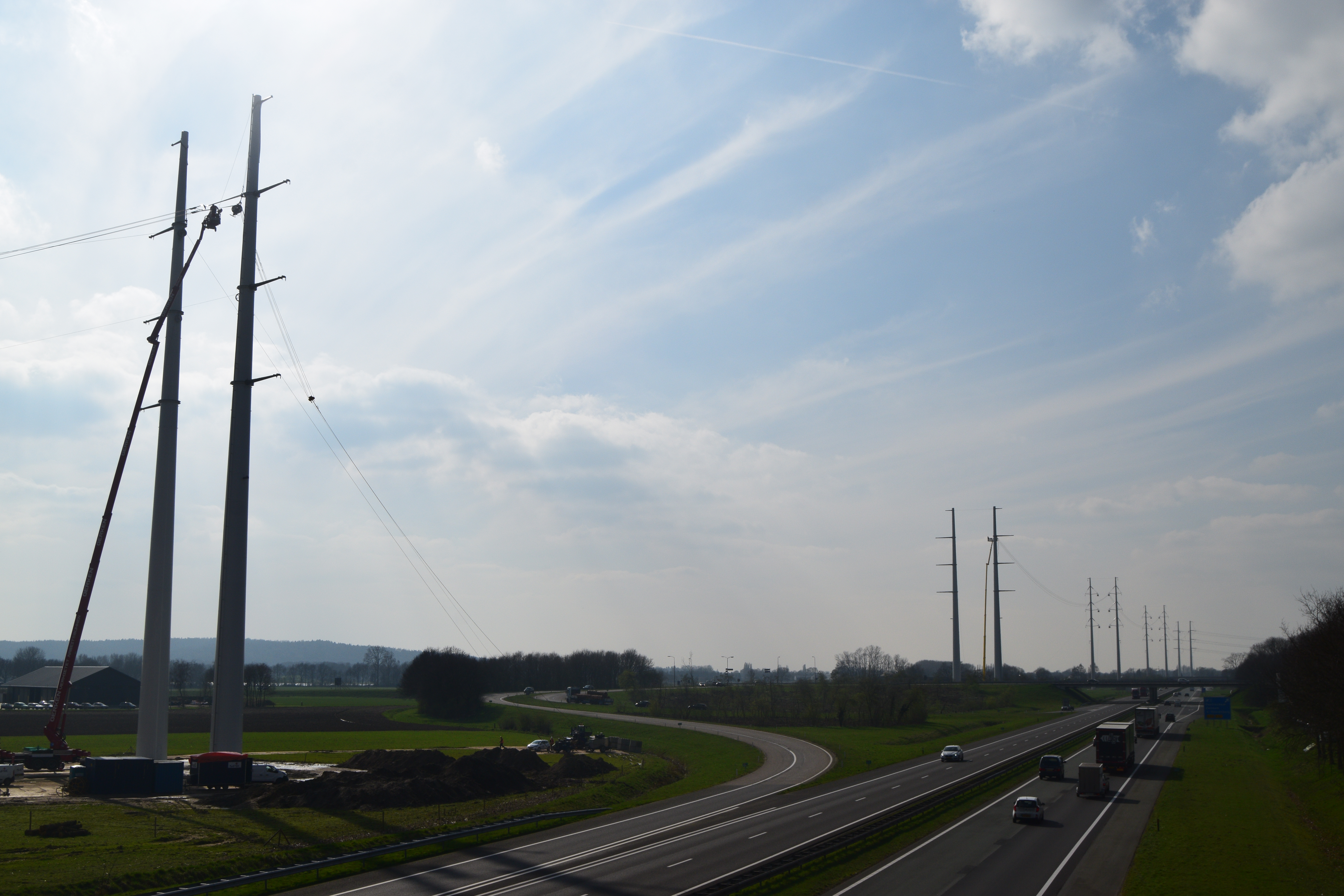 The linking of the Wintrack pylons on the 380 kV connection between Doetinchem (NL) and Wesel (D) during spring of 2017. Picture taken from the Braamtseweg viaduct over the A18 near Doetinchem.